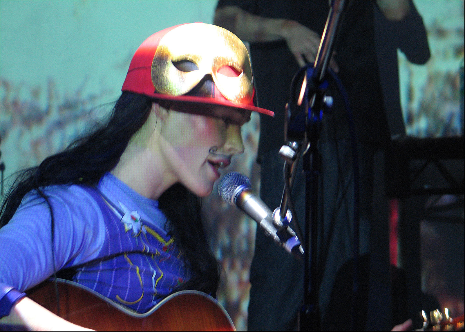 live at the scala